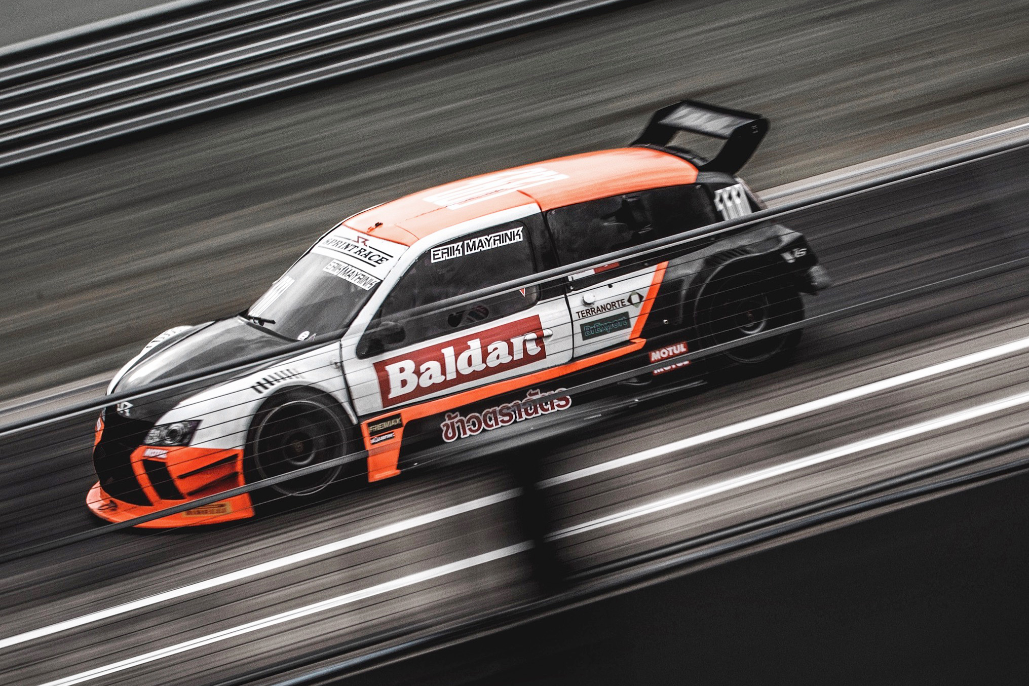 Erik Mayrink - Sprint Race Brasil